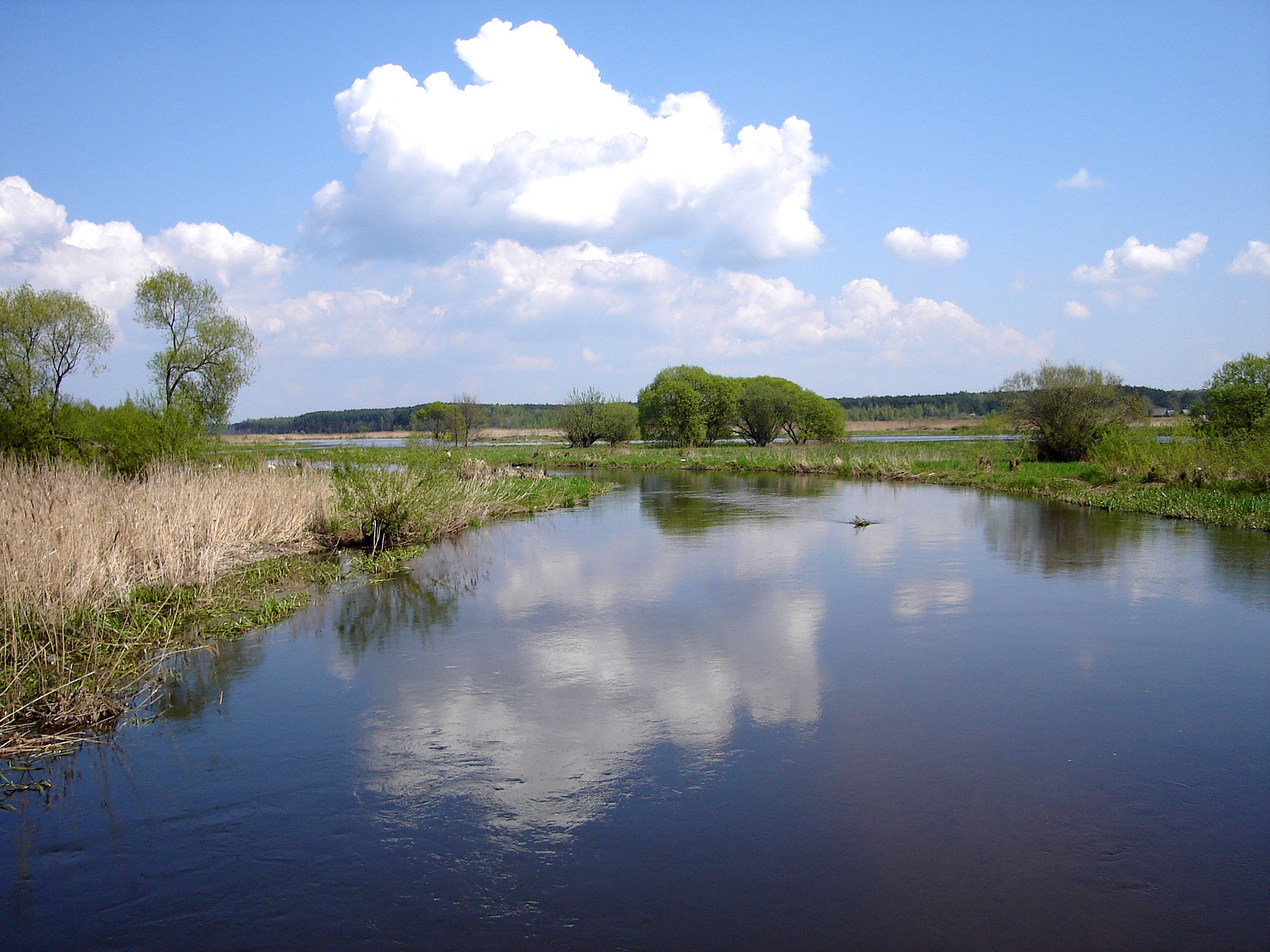 Luciaza river - Przyglow